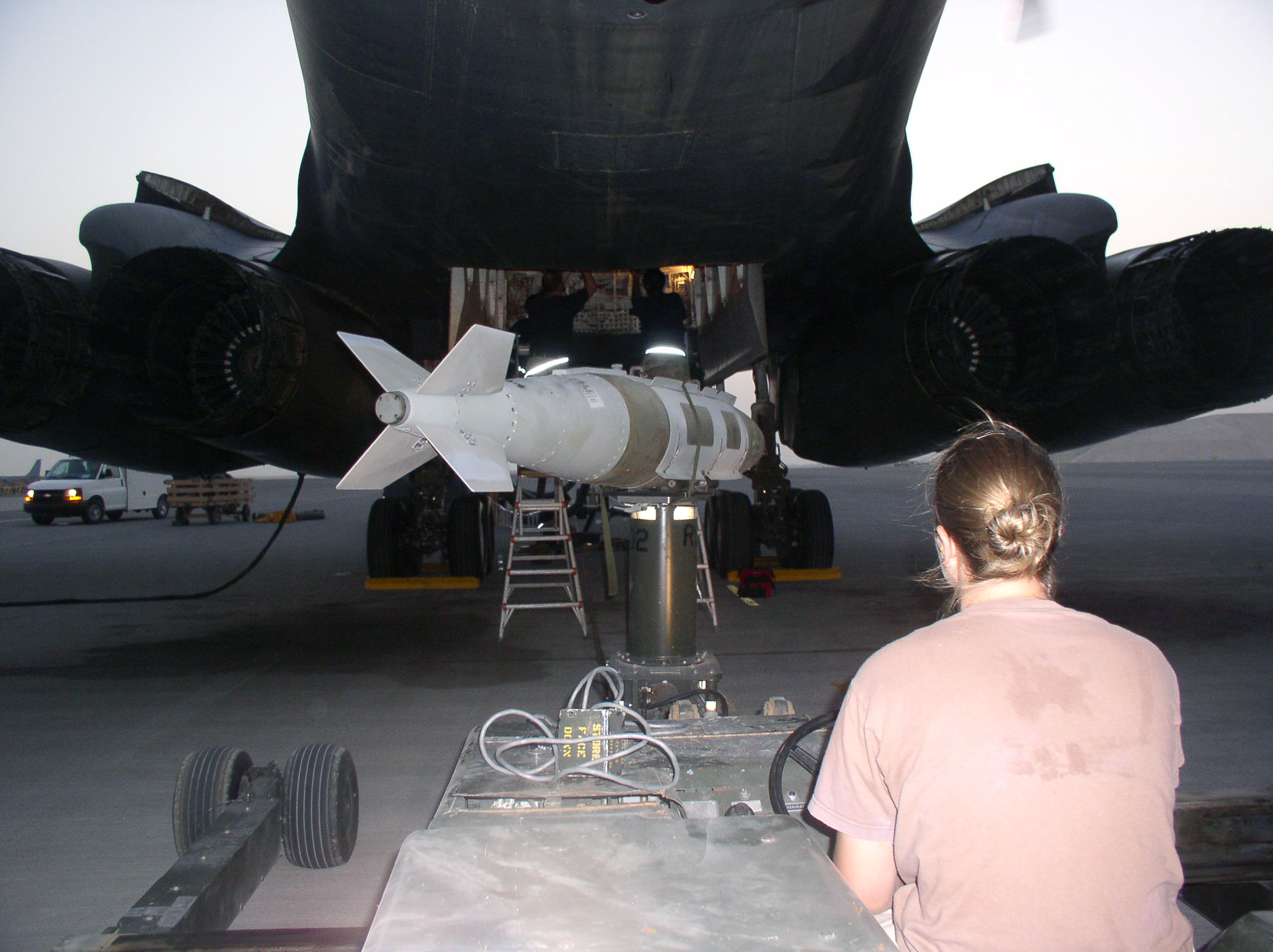 B-1 Lancers join 379th fleet. Senior Airman Tiffany Sommers positions a Guided Bomb Unit-31 Joint Direct Attack Munition for insertion in the aft bomb bay of a B-1 Lancer attached to the 9th Expeditionary Bomber Squadron. Members of the 9th EBS now call the 379th Air Expeditionary Wing home after they were permanently assigned here Aug. 16. Airman Sommers is an aircraft armament systems specialist.